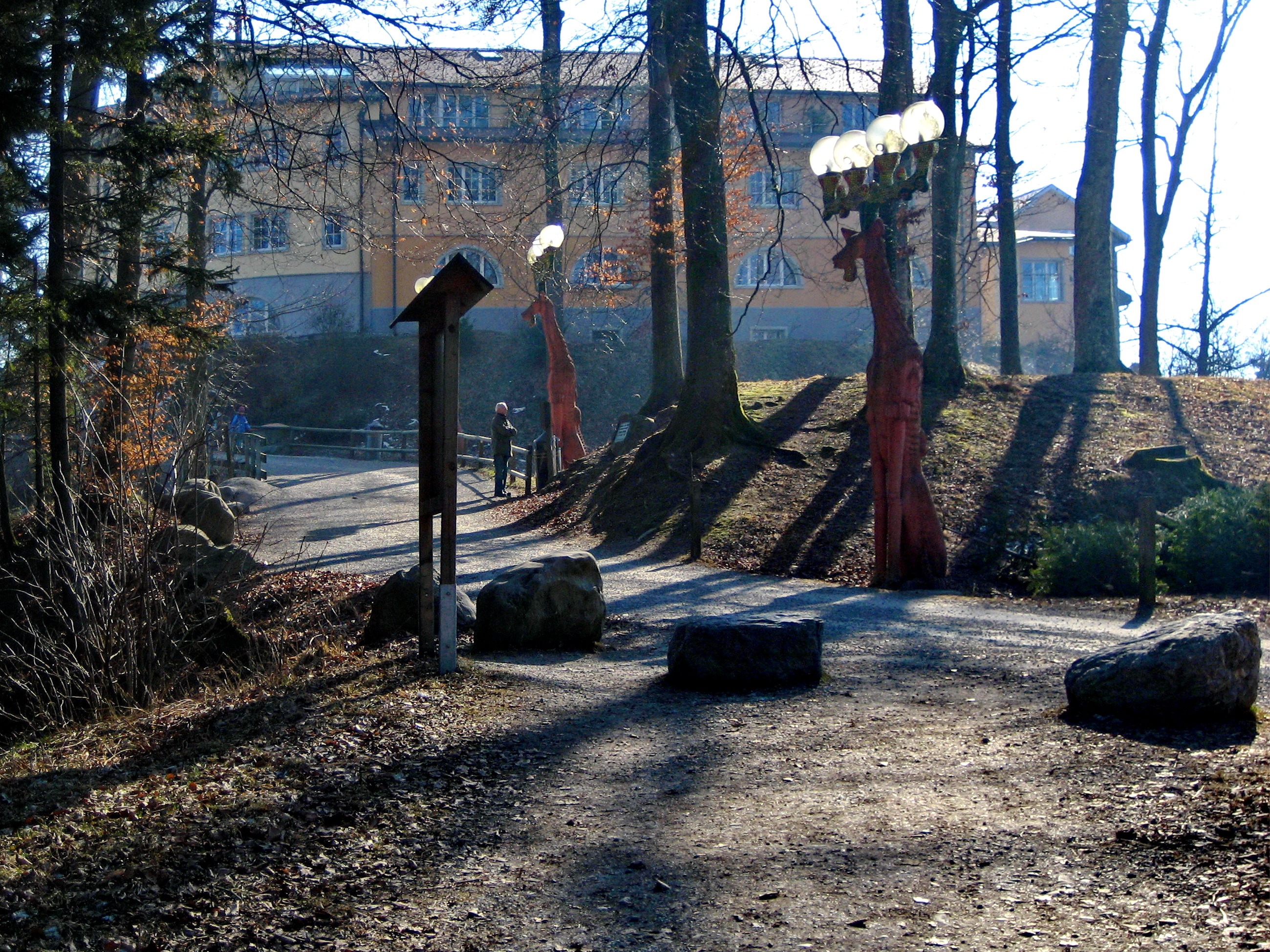 Zürich - Uetliberg : Aegerten plateau / Uto Kulm.